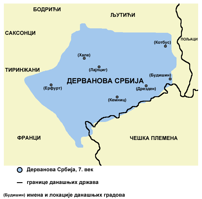 Dervan's Serbia, 7th century.